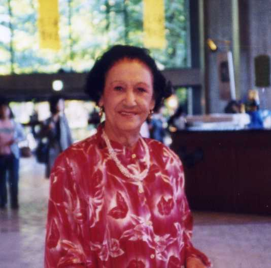 Sulamith Messerer in Tokyo 91 years old, who visited for appreciate Japanese ballet, at Tokyo Bunka Kaikan lobby.